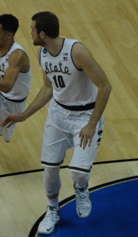 The Bulldogs drive to the Basket against the Spartans